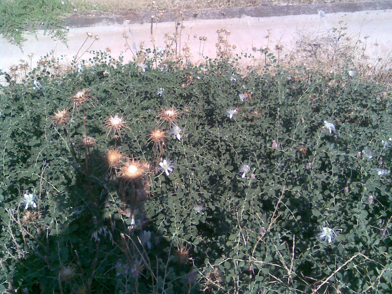 capparis spinsa tree